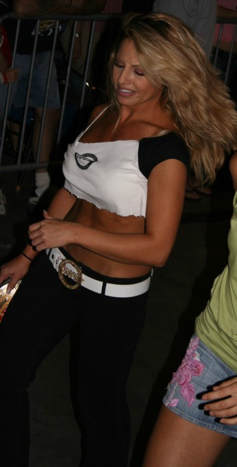 Trish Stratus during a WWE house show held in Kitchener, Ontario, Canada on August 12, 2005.